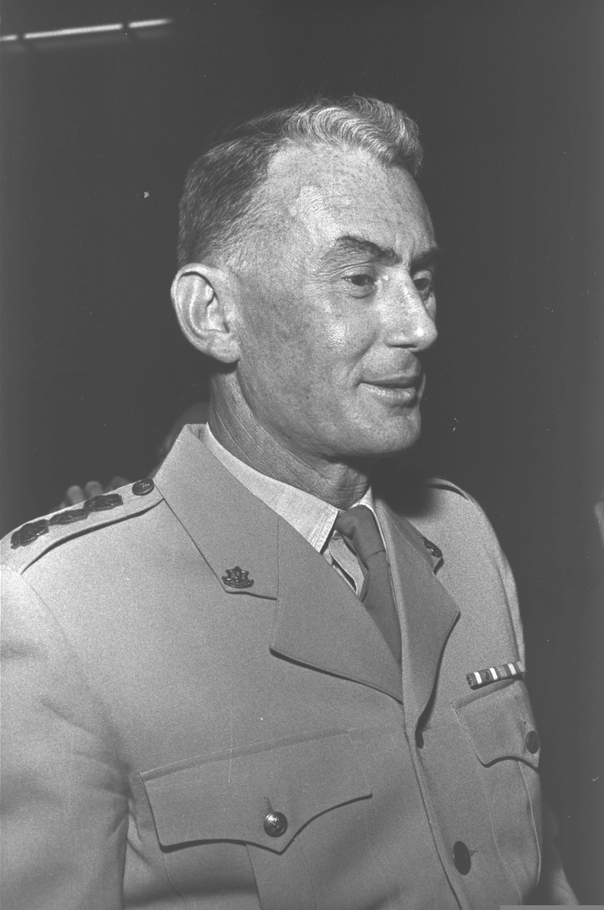 Aluf mishne Binyamin Gibli, acting o.c. central command, Israel Defence Army.